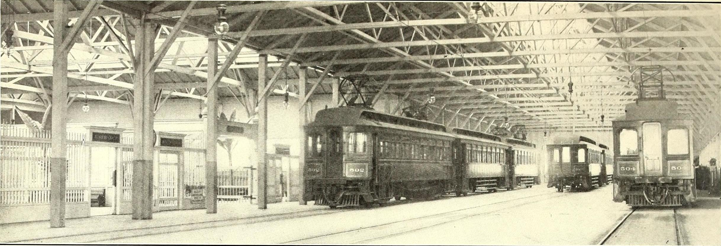 Title: Electric railway journal Year: 1908 (1900s) Authors: Subjects: Electric railroads Publisher: (New York) McGraw Hill Pub. Co Text Appearing Before Image: Oakland Electric Railways—Subway Under Southern Pacific Railway Plate XXXVIII Text Appearing After Image: Central California Traction—Standard Interurban Car Plate XXXIX